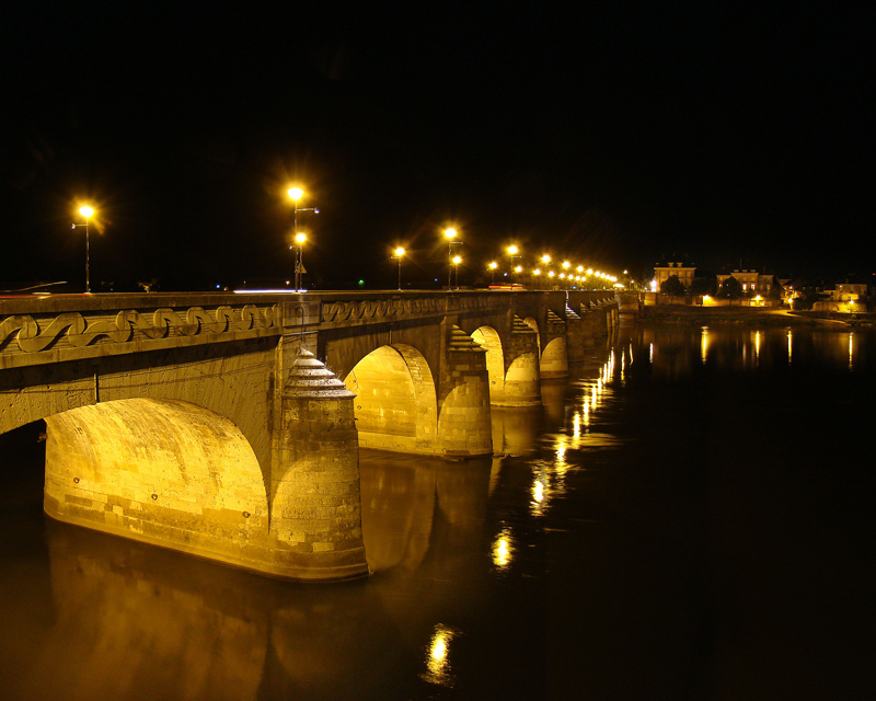 Saumur, Maine-et-Loire, Pays de la Loire, France. The Cessart bridge stretching across the Loire River.